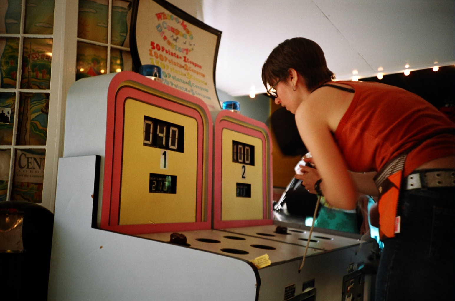 Wack-a-mole. Gayla's highscore = 140